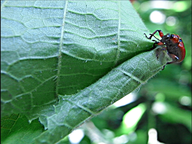 Apoderus coryli rolling leaf of hazelnut, all pictures by same occasion taken in Hungary at 2010-06-11 Description of the 23 pictures on File:Blattwickel 01.jpg